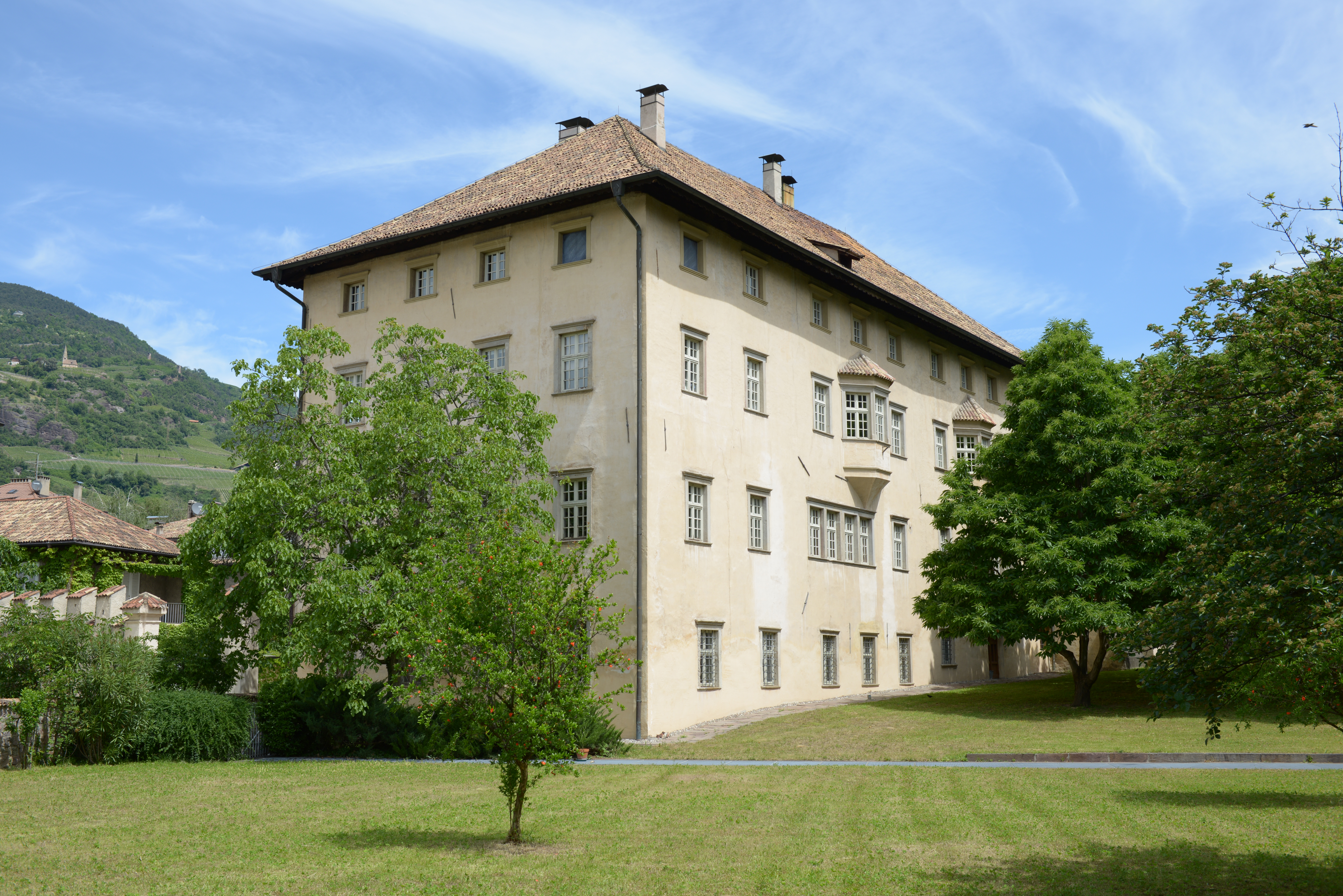 Palais Rottenbuch in Bozen